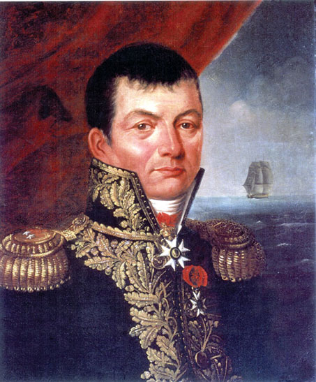 Julien Cosmao